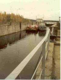 a photo of Belomorkanal